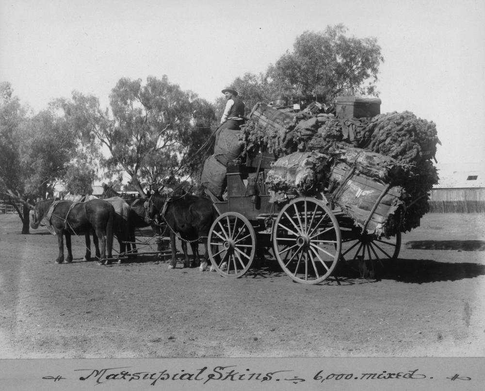 Marsupial skins loaded on a wagon, Charleville district, 1902-1904 Caption: 'Marsupial skins. 6,000 mixed.'.